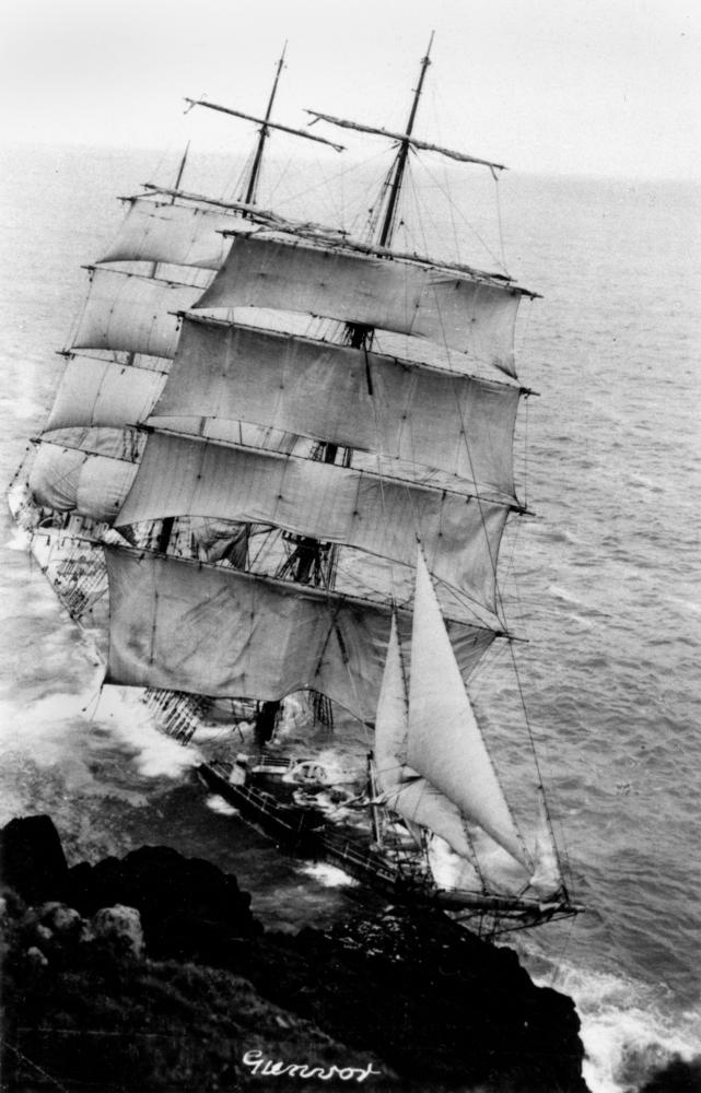 Gunvor (ship) An image of 'Gunvor' wrecked on rocks. The original photographer was James Gibson of Scilly Isles, England. (Description supplied with photograph).